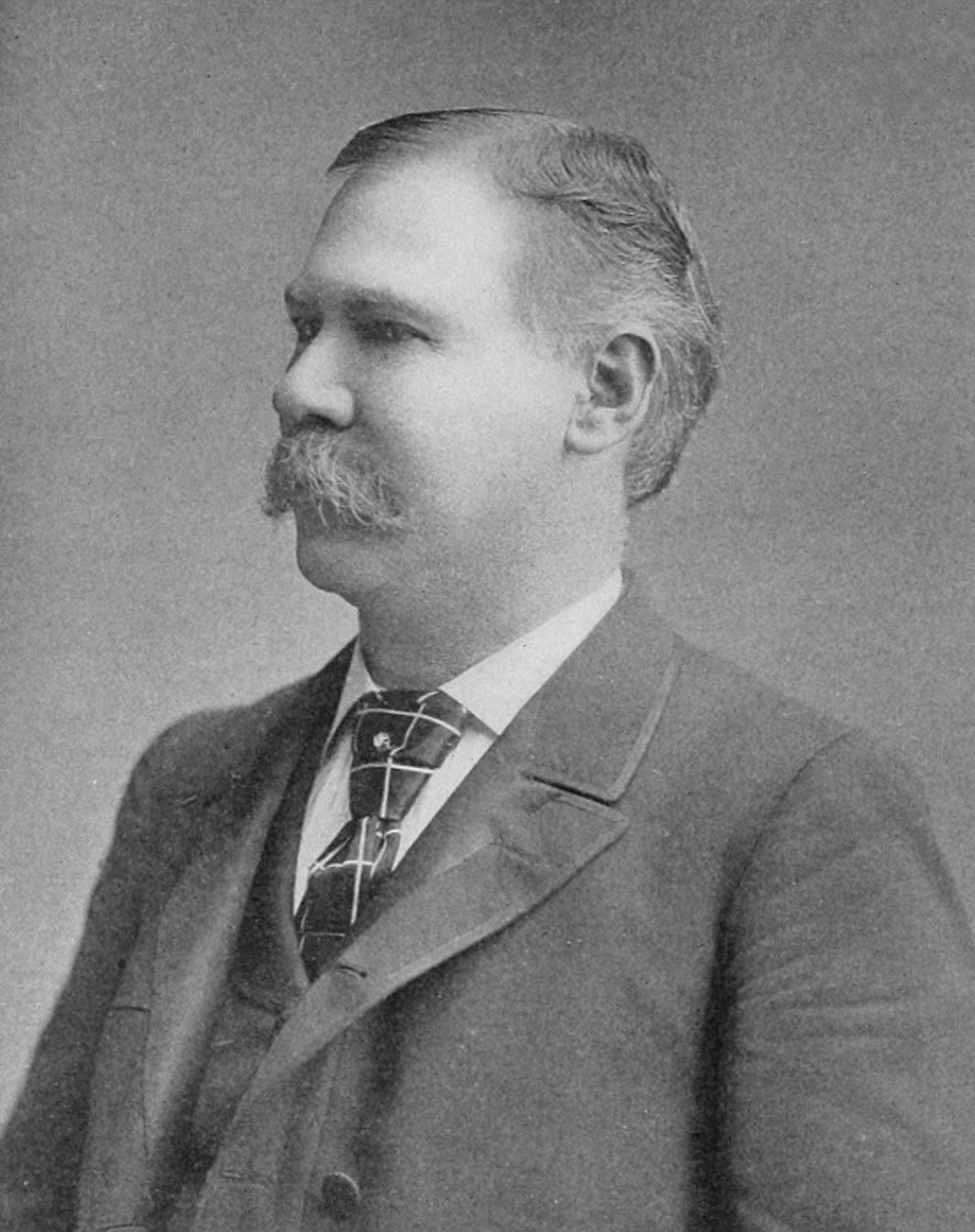 Rice A. Pierce (Tennessee Congressman)